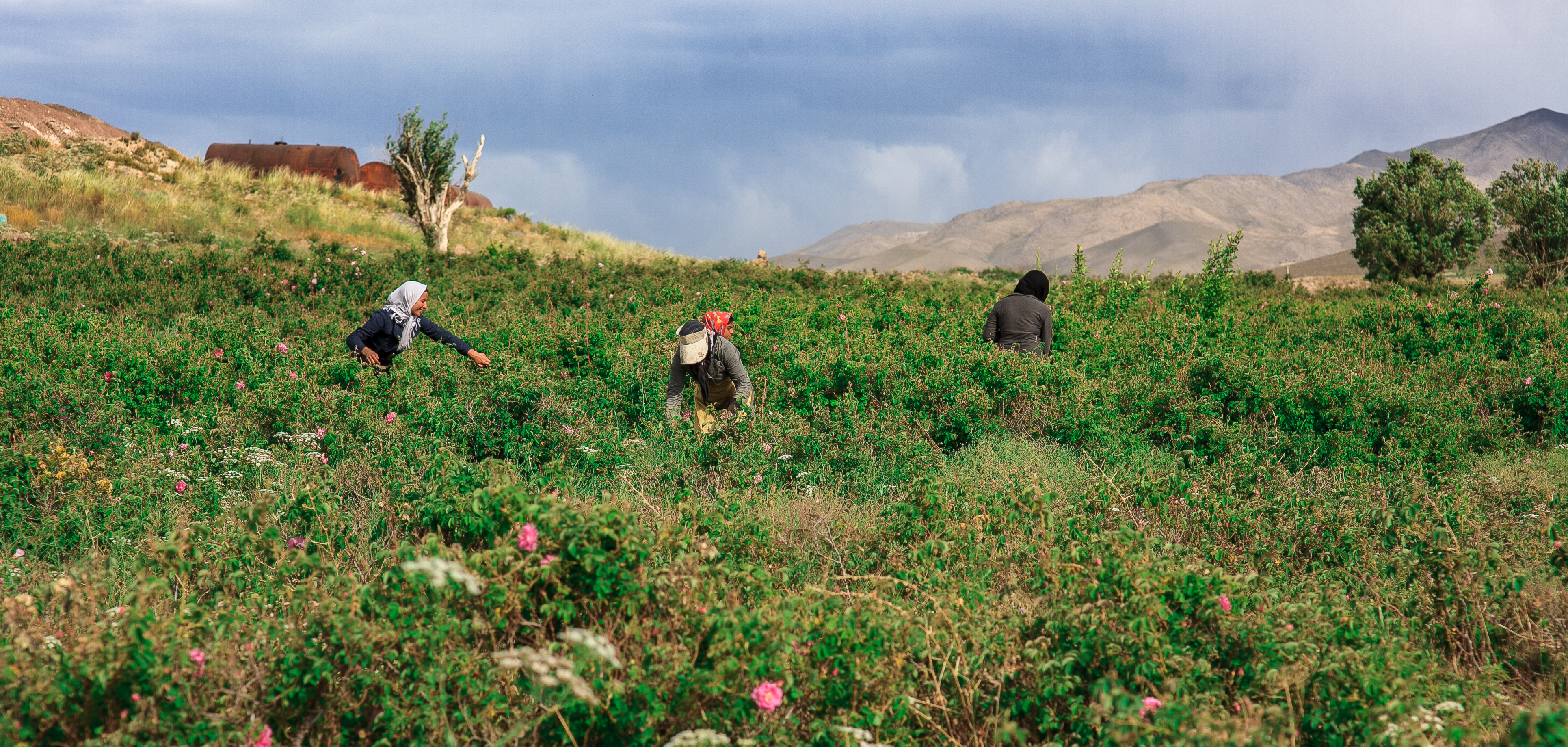 لاله زار بردسیر